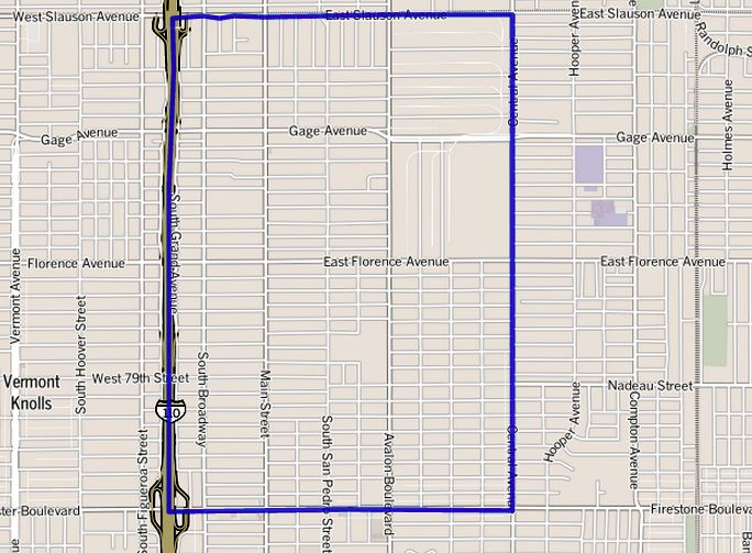 Map of the Florence district of Los Angeles, California, as outlined by the Los Angeles Times. Other information Note at bottom right of map on the L.A. Times website says "CC-by-SA" (which gives permission to use the map). There is a link there to which explains the meaning thereof.